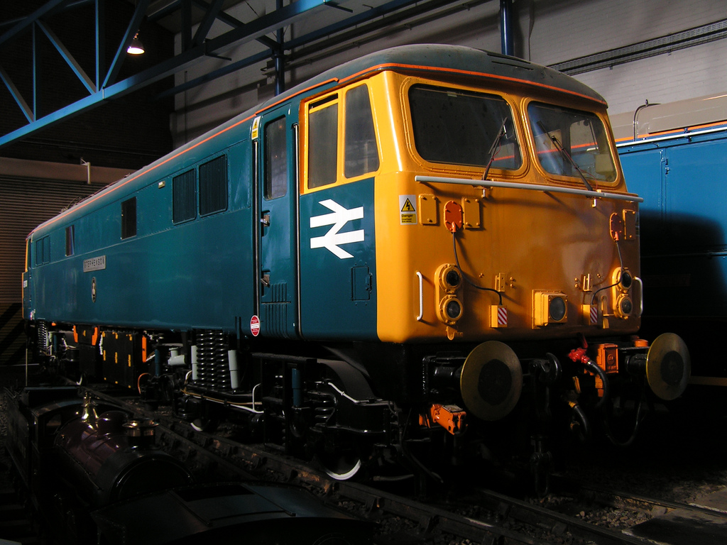 87001, one of only a few AC Electric locomotives to be preserved, now owned by the National Railway Museum in York.